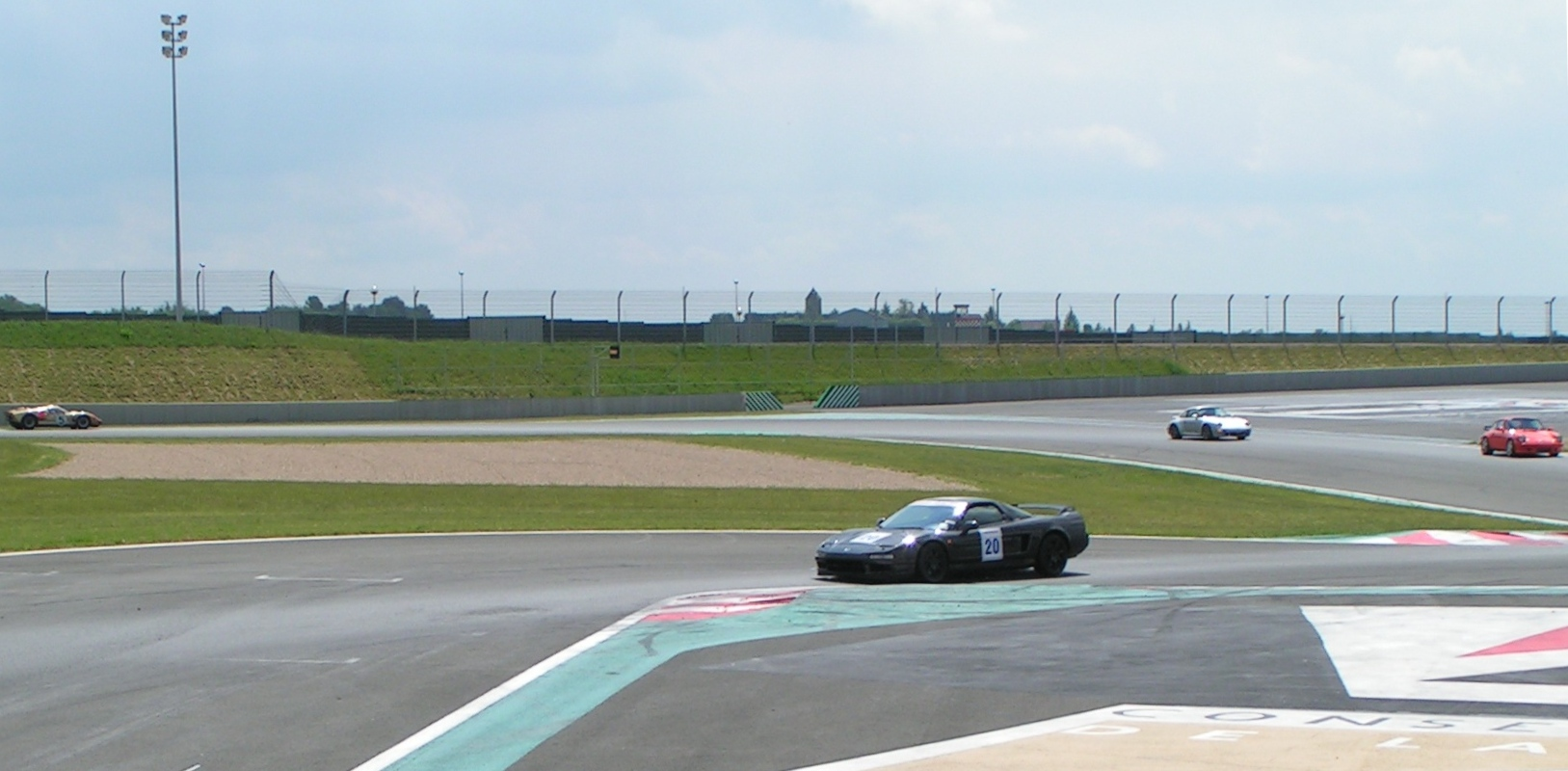 New Complexe du Lycee at Circuit Nevers Magny-Cours